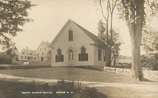 North Branch Chapel, Antrim, NH; from a c. 1915 postcard. Built in 1877, it was added to the National Register of Historic Places as part of the Flint Estate in 1984.